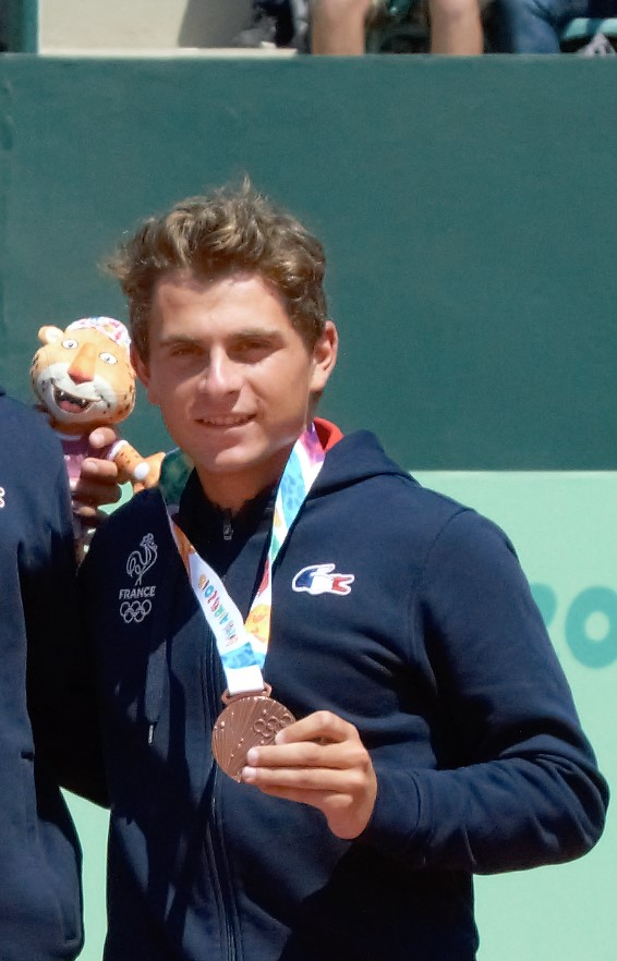 Victory ceremony of the boys doubles tennis tournament of the 2018 Summer Youth Olympics.